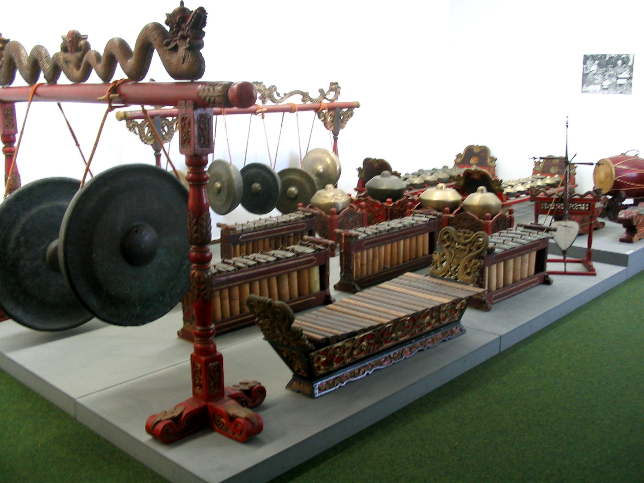 Gamelan in the Museum of Music Instruments. Berlin